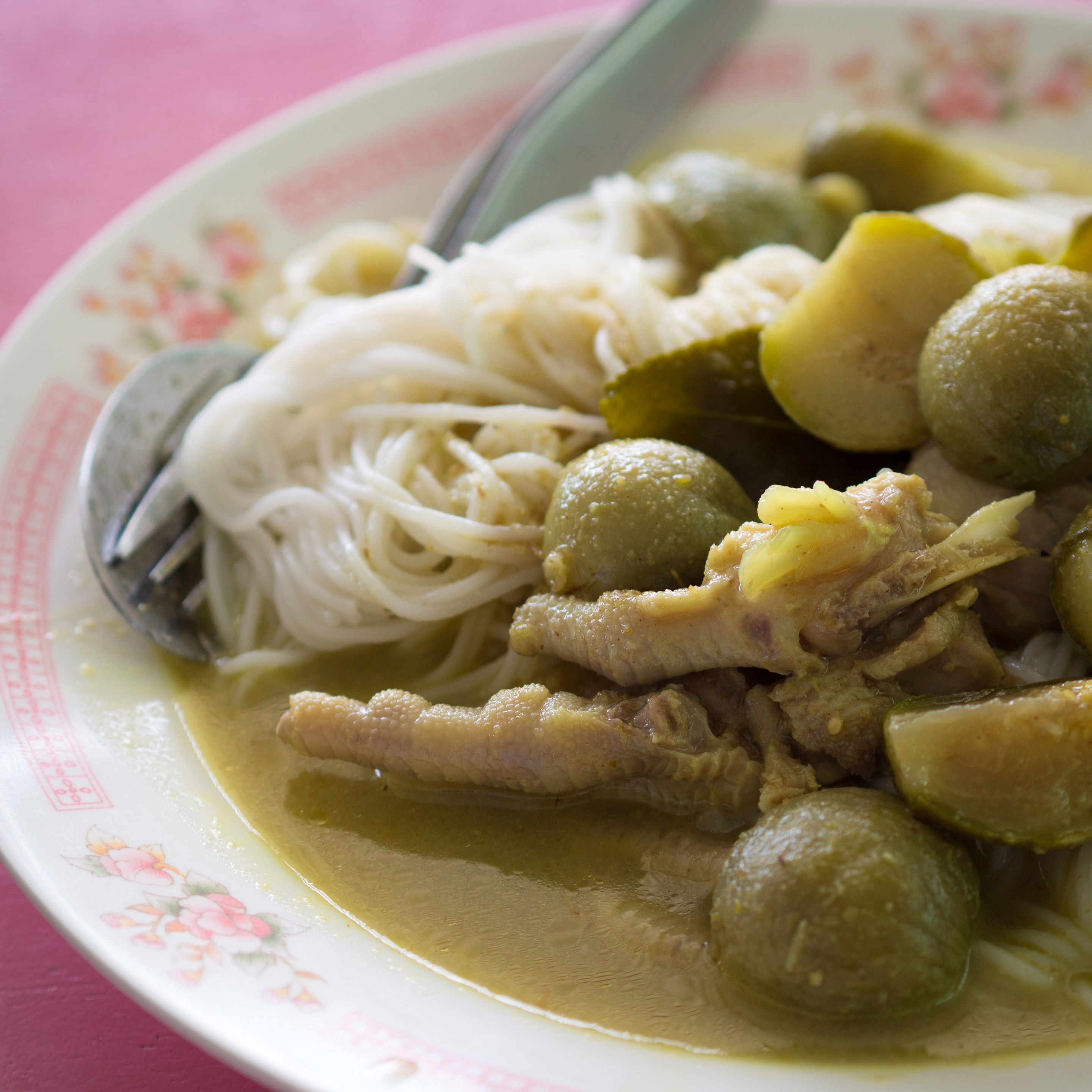 Khanom chin kaeng khiao wan kai (Thai script: ขนมจีนแกงเขียวหวานไก่) is a popular dish in Thailand consisting of Thai green chicken curry served over freshly made Thai rice noodles. It is usually served with a selection of fresh vegetables and herbs on the side. The chicken meat used in this particular version is chicken feet. They are regarded as a delicacy in most of East and Southeast Asia.